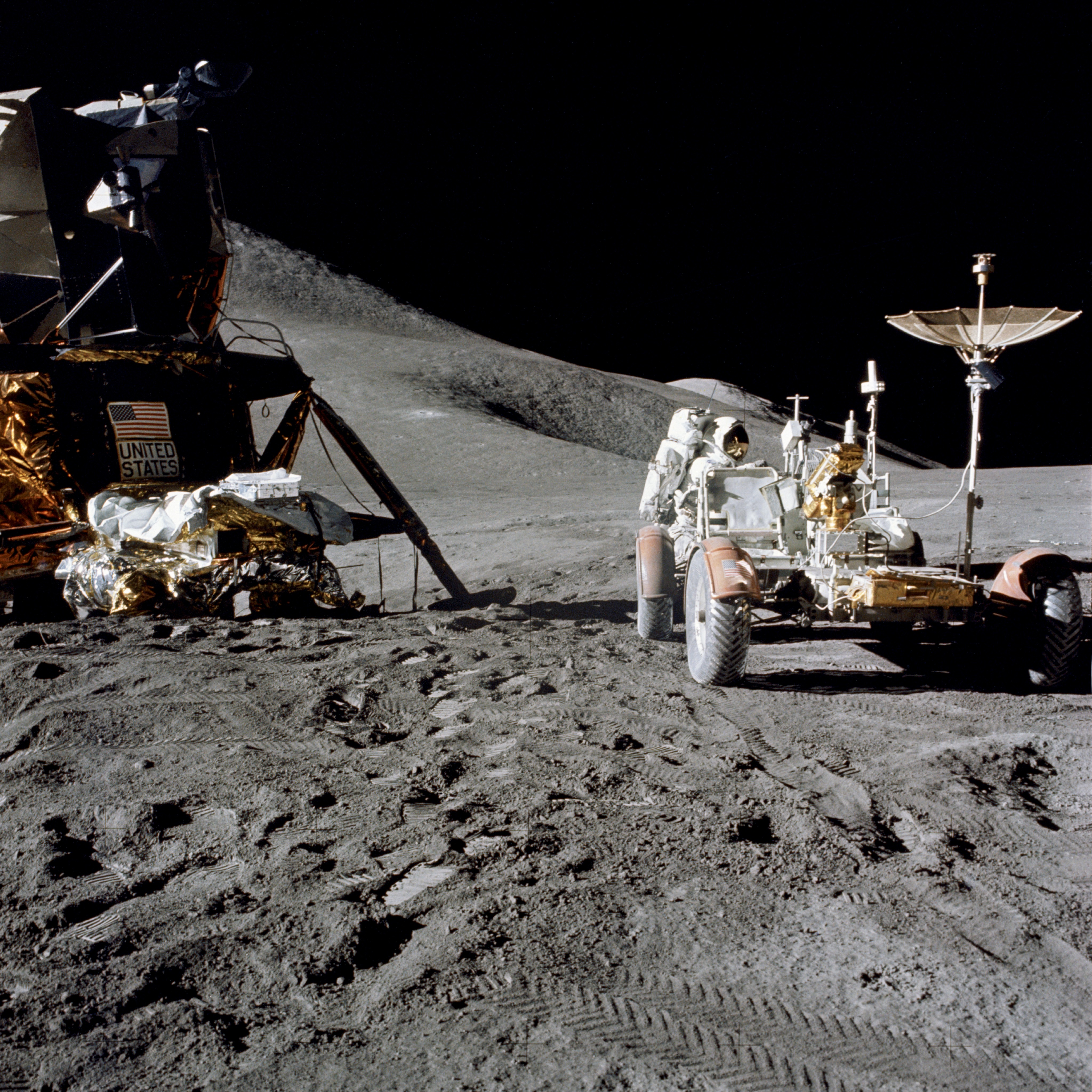 AS15-86-11602 (31 July 1971) --- Astronaut James B. Irwin, lunar module pilot, works at the Lunar Roving Vehicle (LRV) during the first Apollo 15 lunar surface extravehicular activity (EVA) at the Hadley-Apennine landing site. A portion of the Lunar Module (LM) "Falcon" is on the left. The undeployed Laser Ranging Retro Reflector (LR-3) lies atop the LM's modular equipment stowage assembly (MESA). This view is looking slightly west of south. Hadley Delta and the Apennine Front are in the background to the left. St. George crater is approximately five kilometers (about three statute miles) in the distance behind Irwin's head. This photograph was taken by astronaut David R. Scott, commander. While astronauts Scott and Irwin descended in the LM to explore the moon, astronaut Alfred M. Worden, command module pilot, remained with the Command and Service Modules (CSM) in lunar orbit.